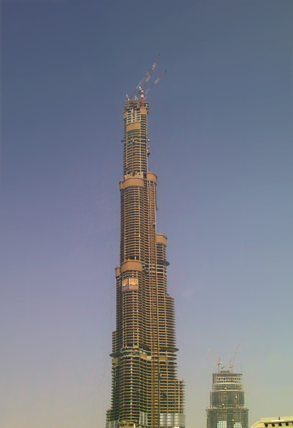 Burj Dubai 15th July 2007